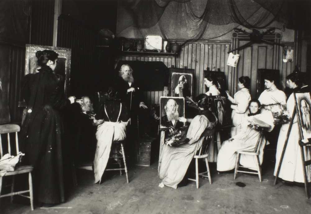 Julia E. Hoffman (American, 1856-1934), Painting Class Taught By Frank DuMond in Julia E. Hoffman's Studio, 714 Everett Street, Portland, Oregon, ca. 1895 (negative); 1980s (print), gelatin silver print, Bequest of Margery Hoffman Smith, no known copyright restrictions, 2005.9.6. From Portland Art Museum’s Online Collections. Title: Painting Class Taught By Frank DuMond in Julia E. Hoffman's Studio, 714 Everett Street, Portland, Oregon Artist: Julia E. Hoffman (American, 1856-1934) Related People: pictured in: Frank Vincent DuMond (American, 1865-1951) / printer: Terry Toedtemeier (American, 1947-2008) Date: ca. 1895 (negative); 1980s (print) Medium: gelatin silver print Dimensions (H x W x D): image: 4 1/2 in x 6 1/2 in; sheet: 8 in x 10 in Collection Area: Photography; Northwest Art Category: Photographs Object Type: photograph Culture: American Credit Line: Bequest of Margery Hoffman Smith Accession Number: 2005.9.6 Copyright: public domain Terms: gelatin silver prints / painting / photographs